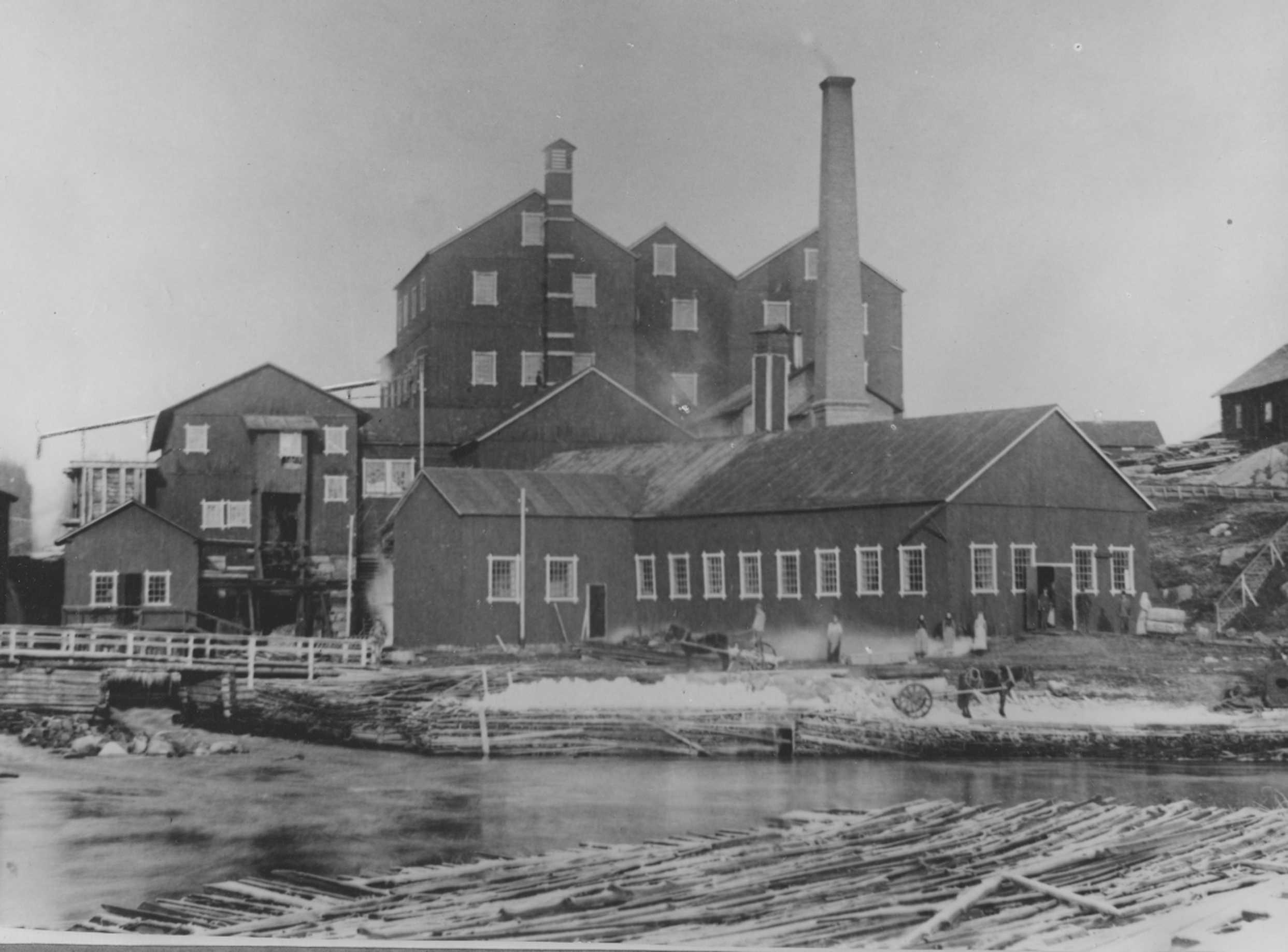 Pulp mill and sawmill in Jämsänkoski, Finland before 1895